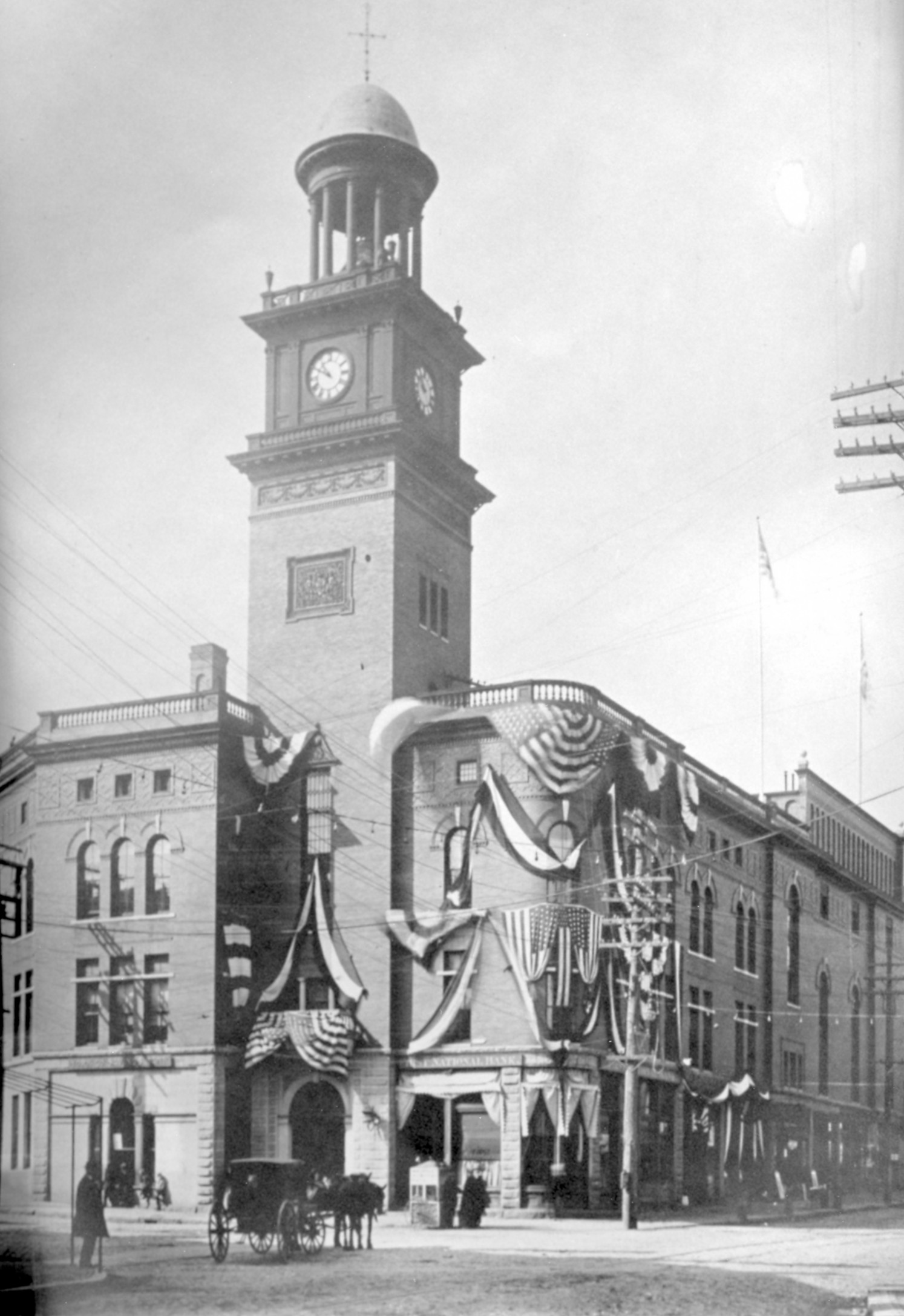 Picture of Biddeford, Maine, town hall circa 1855. Questions? See website: [1] The picture is public domain because it was published before 1923.